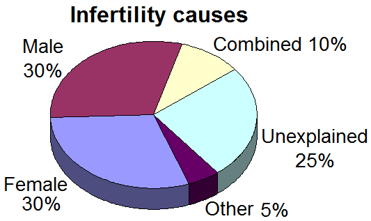 Causes of infertility, data compiled in the United Kingdom 2009. Reference: Regulated fertility services: a commissioning aid - June 2009, from the Department of Health UK